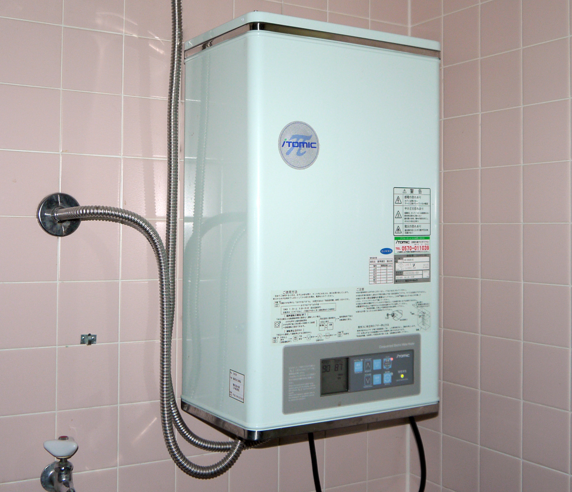 Japanese electric water heater